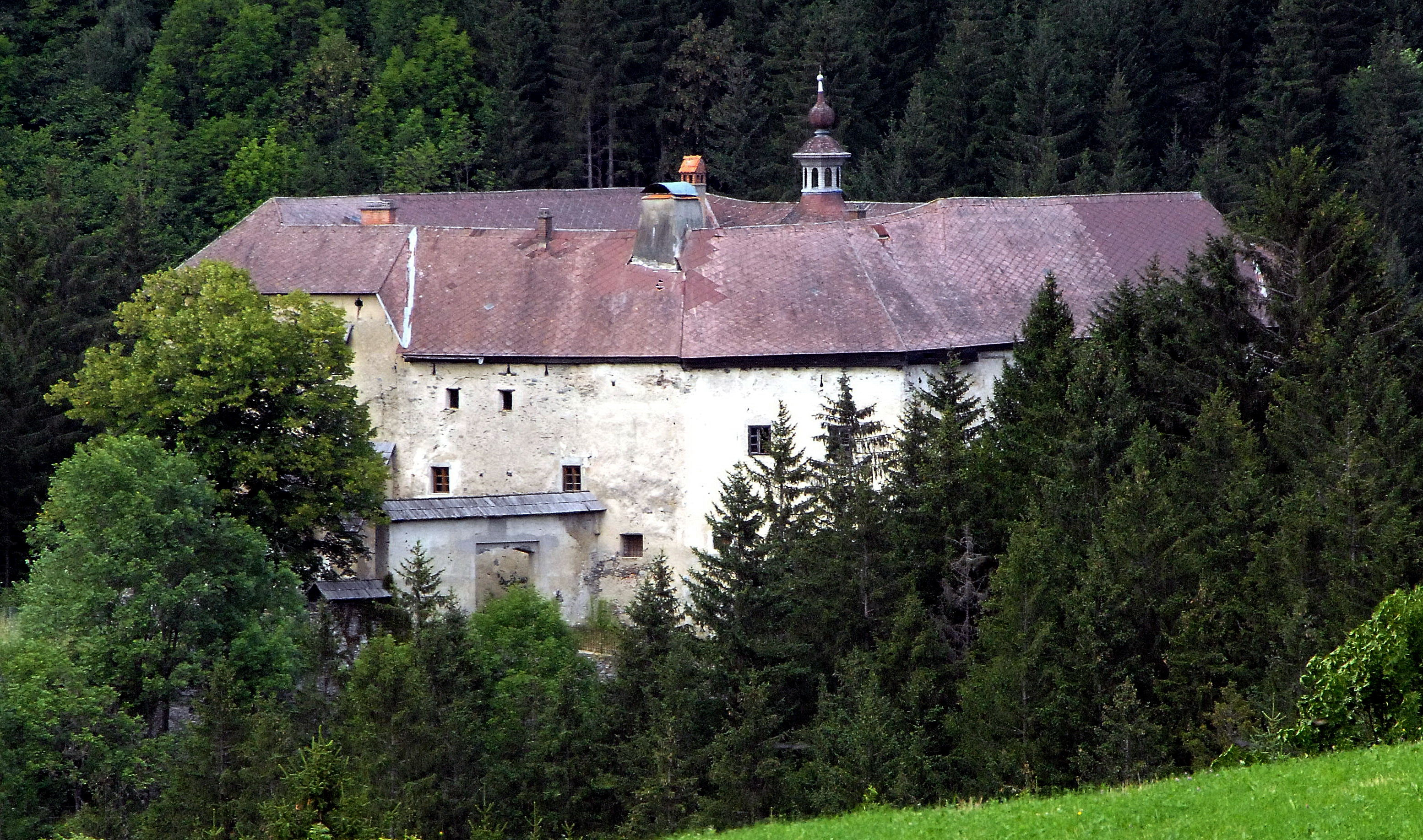 Castle in Grades, market town Metnitz, district St. Veit an der Glan, Carinthia, Austria, EU